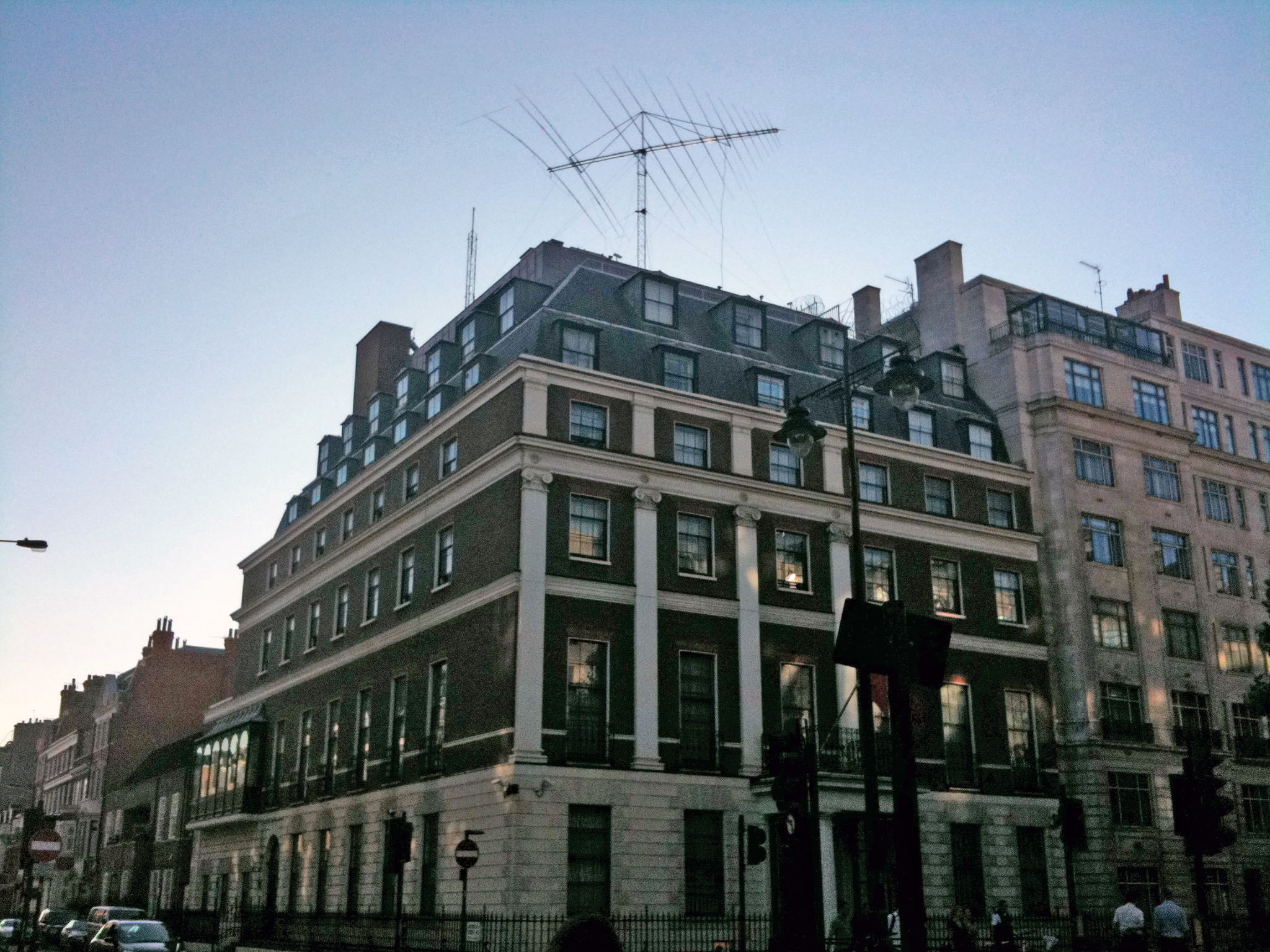 Big aerial on Portland Place, Chinese Embassy